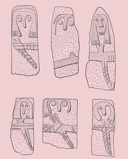 Stelae from Meshkin Shahr